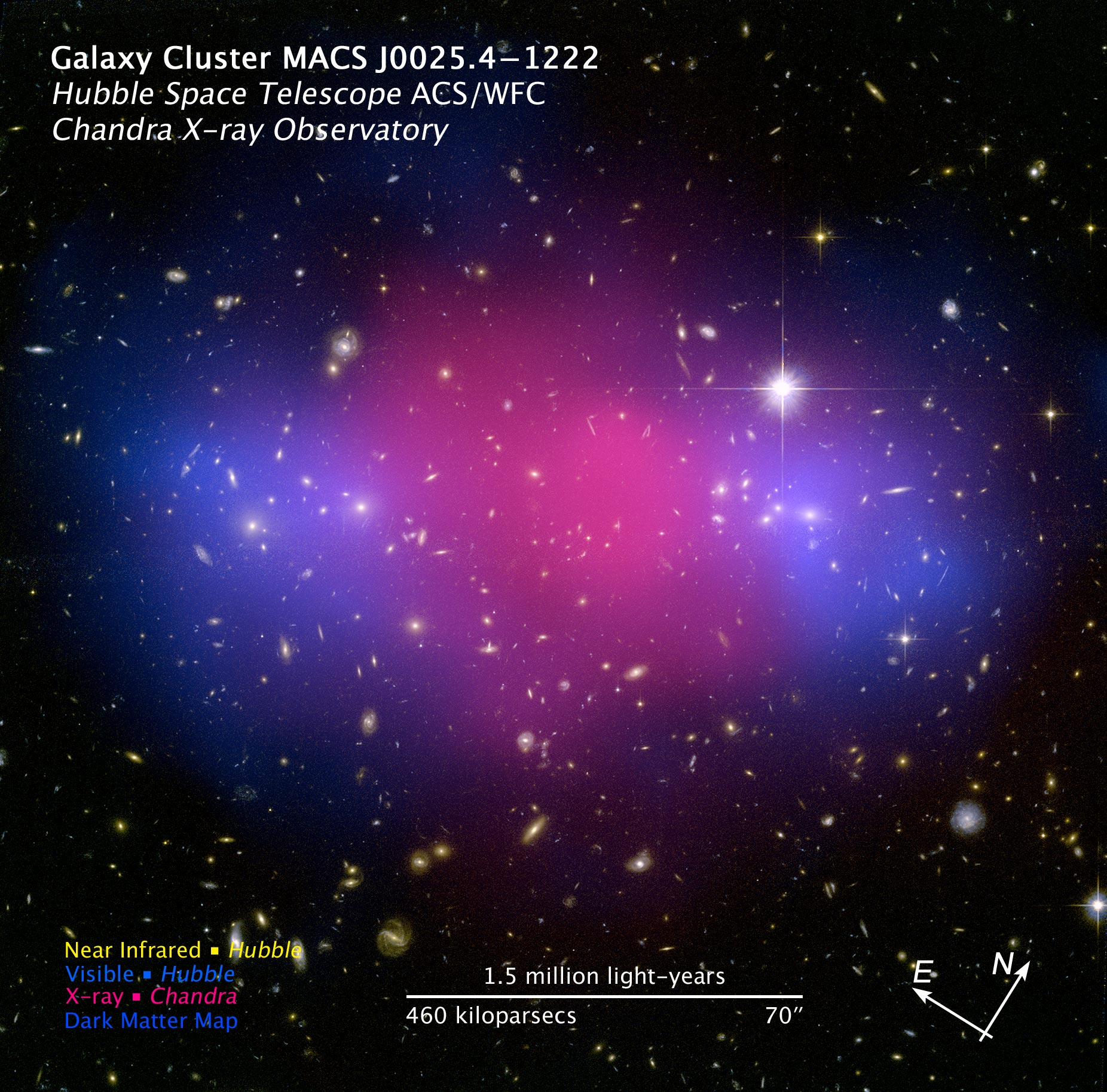 A powerful collision of galaxy clusters has been captured by NASA’s Hubble Space Telescope and Chandra X-ray Observatory. The observations of the cluster known as MACS J0025.4-1222 indicate that a titanic collision has separated the dark from ordinary matter and provide an independent confirmation of a similar effect detected previously in a target dubbed the Bullet Cluster. These new results show that the Bullet Cluster is not an anomalous case.